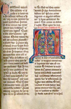 Augustine of Hippo: ConfessionsAugustine. Confessiones. BPH Ms 83. Manuscript on vellum. Germany, first half 13th century. Augustine opposed the Manichaean view that there were two creations: a Realm of Light and a Realm of Darkness. In the 7th book of his Confessions he quotes his good friend Nebridius, who said the following about dualism: That said nation of darkness, which the Manichees are wont to set as an opposing mass over against Thee, what could it have done unto Thee, hadst Thou refused to fight with it?' For, if they answered, it would have done Thee some hurt, then shouldest Thou be subject to injury and corruption: but if it could do Thee no hurt, then was no reason brought for Thy fighting with it; and fighting in such wise, as that a certain portion or member of Thee, or offspring of Thy very Substance, should he mingled with opposed powers, and natures not created by Thee, and be by them so far corrupted and changed to the worse, as to be turned from happiness into misery, and need assistance, whereby it might be extricated and purified.' Confessiones VII, 2, 3, E.B. Pusey